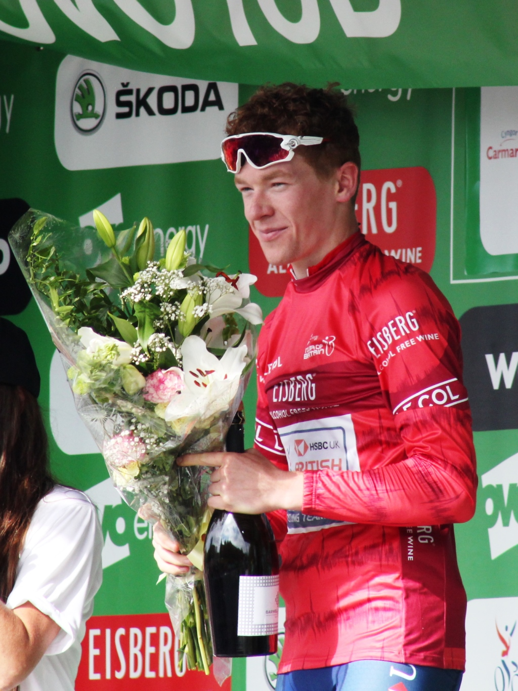 Matthew Bostock, riding for Team great Britain, was the leader of the sprints competition on the first stage of the 2018 Tour of Britain which was across south wales to Newport, south Wales.